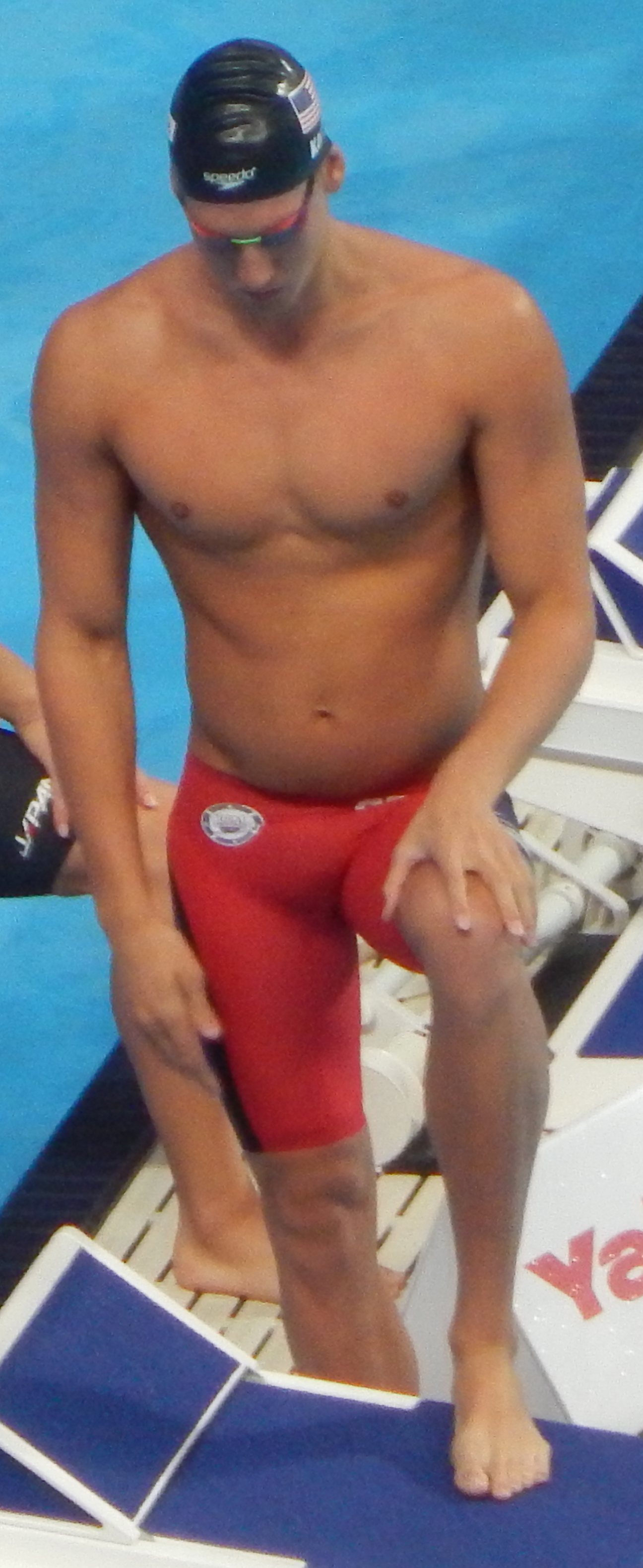 Chase Kalisz in Kazan 2015